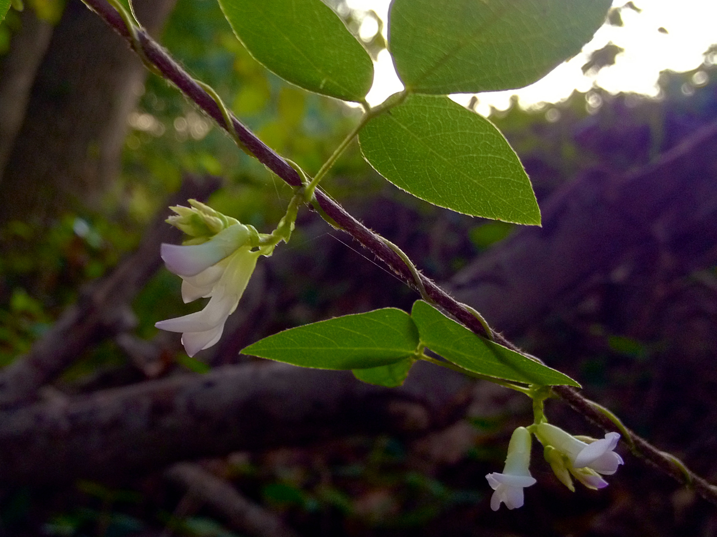 Photo of Amphicarpaea bracteata in flower. This is a native plant growing wild in the Chesapeake & Ohio Canal National Historic Park, Montgomery county Maryland, USA. This species is a member of the Fabaceae family.